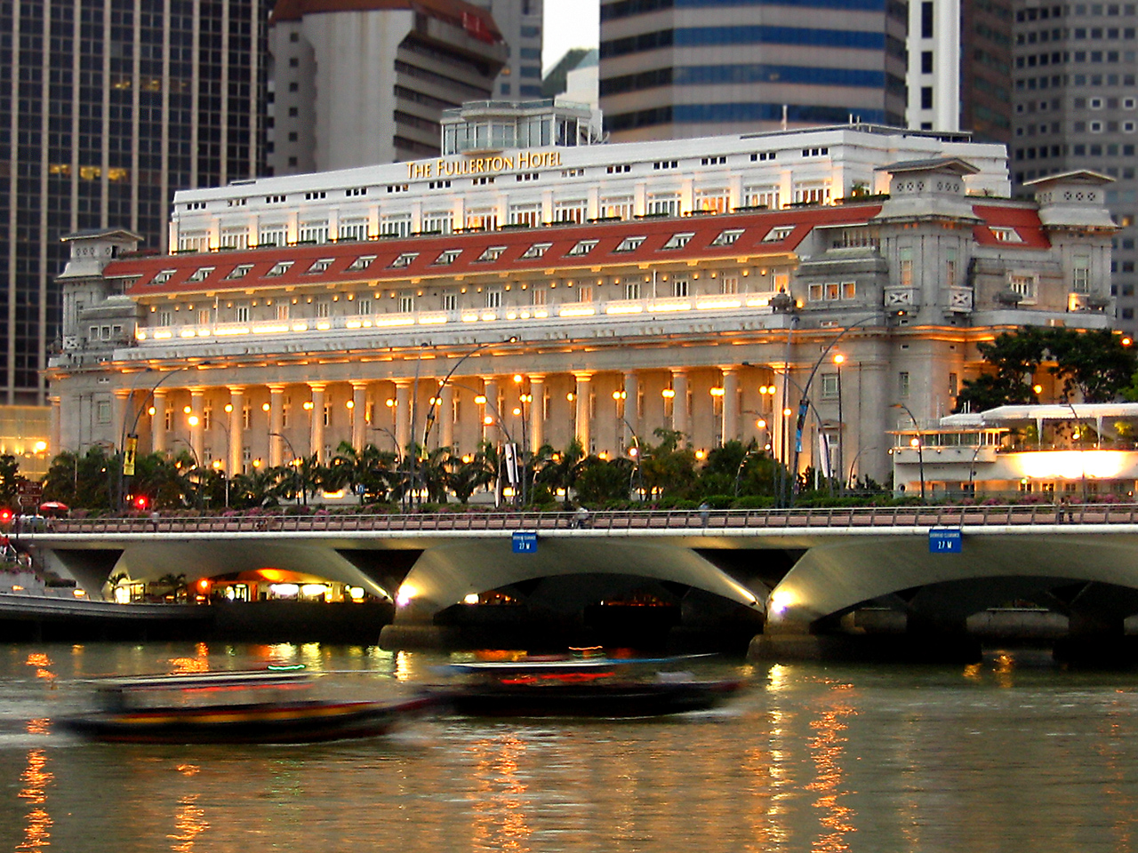 The Grand Fullerton Hotel, Singapore, at Sunset, as viewed from Esplanade Img by Calvin Teo, End May 2006